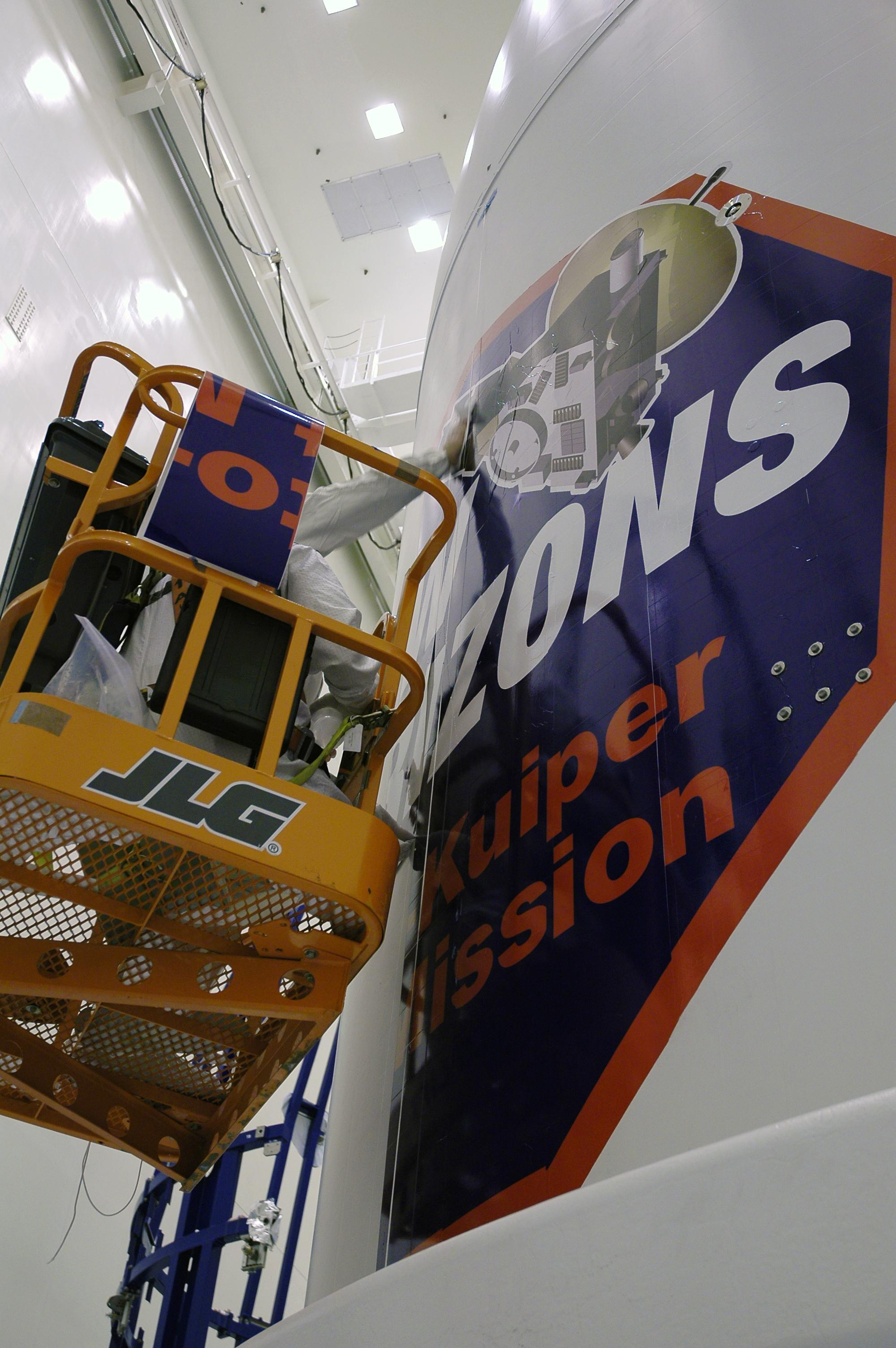 KENNEDY SPACE CENTER, FLA. – Technicians install strips of the New Horizons mission decal on the spacecraft fairing in the Payload Hazardous Servicing Facility. The last strip will be installed on the fairing after the spacecraft is delivered to Pad 41 on Dec. 17. New Horizons carries seven scientific instruments that will characterize the global geology and geomorphology of Pluto and its moon Charon, map their surface compositions and temperatures, and examine Pluto's complex atmosphere. After that, flybys of Kuiper Belt objects from even farther in the solar system may be undertaken in an extended mission. New Horizons is the first mission in NASA's New Frontiers program of medium-class planetary missions. The spacecraft, designed for NASA by the Johns Hopkins University Applied Physics Laboratory in Laurel, Md., will launch aboard a Lockheed Martin Atlas V rocket and fly by Pluto and Charon as early as summer 2015.